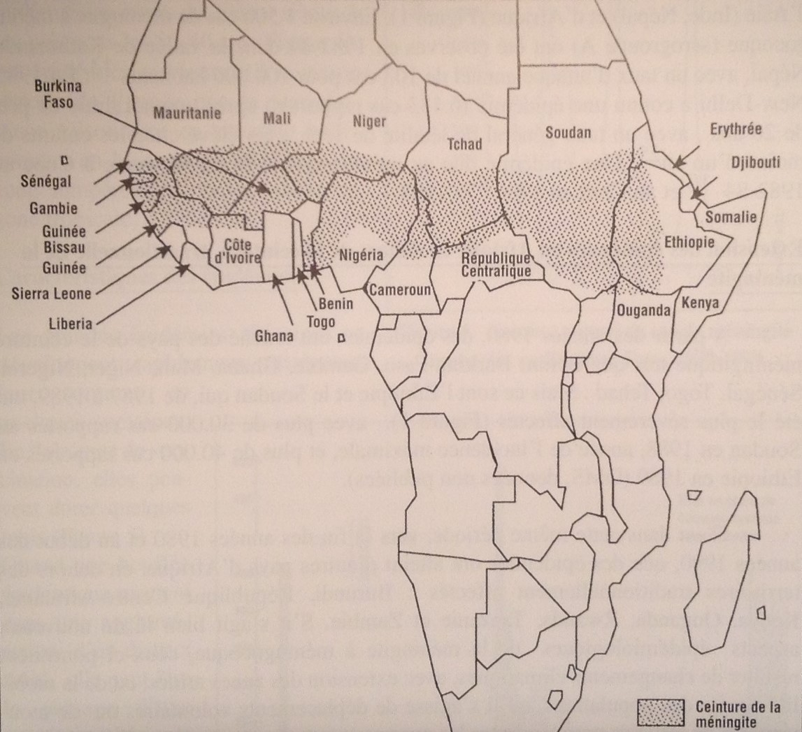 Map of Africa showing the area between the 300 mm isohyet and the 1100 mm isohyet, described as the area where epidemics of meningococcal meningitis occur.